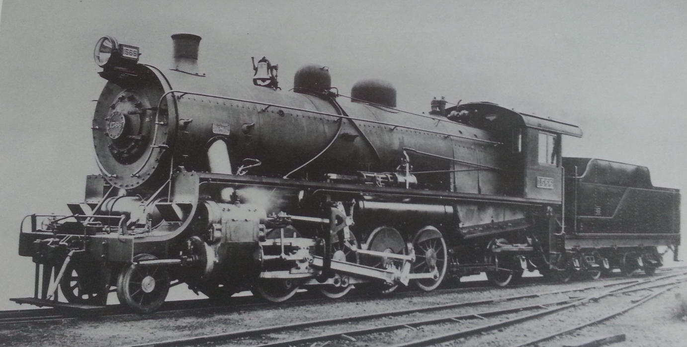 Builder's photo of South Manchuria Railway Mikai1566.